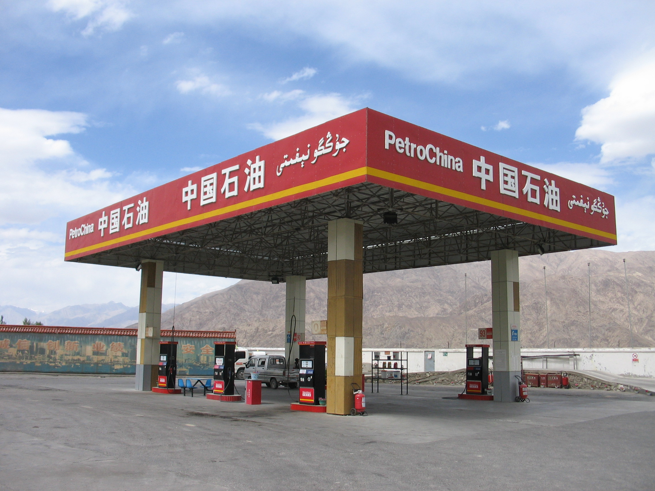 A PetroChina station in Xinjiang, China. Their name is written in English, Chinese, and Uyghur. Taken June 2007.